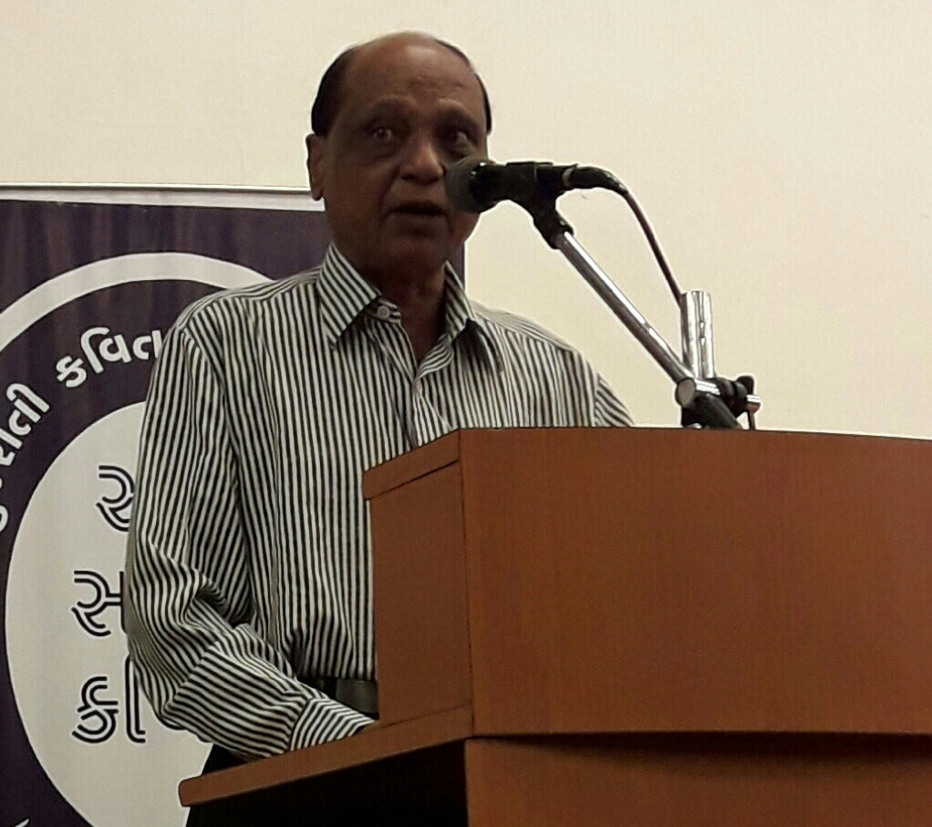 Gujarati poet Rashid Meer at Atman Auditorium, Ahmedabad on 6 November 2016.